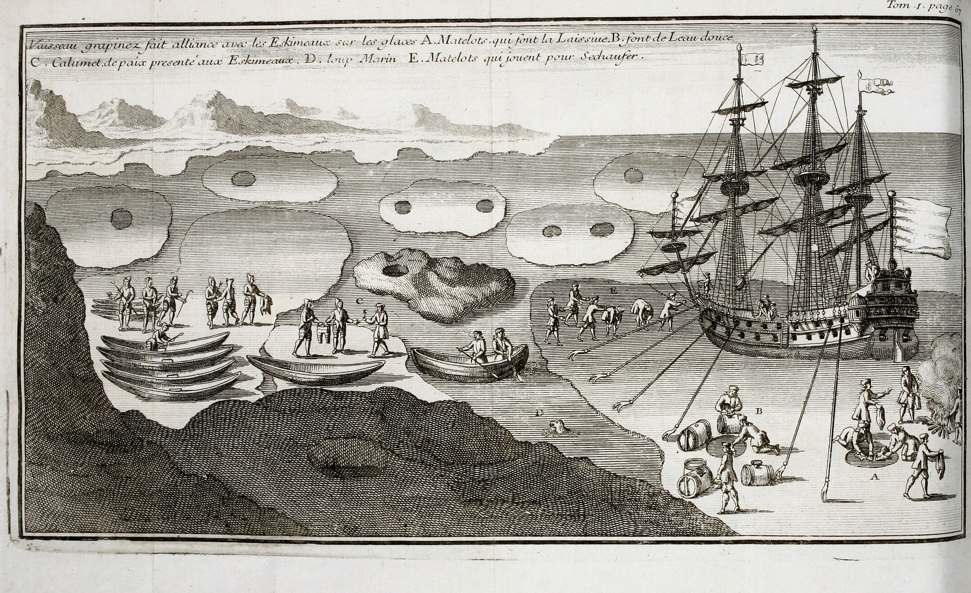 The Pelican, d'Iberville's ship stuck in the ice of Hudson Bay in August 1697. Vessel identifiable with the text of Bacqueville de La Potherie, embarked on the ship in 1697 and describes the meeting with the Eskimos on the ice floe as well as docking the ship on the ice with grapples. Drawing made to illustrate the fighting in Hudson Bay during the war of the League of Augsburg (1688-1697). Drawing published in 1722 and then in 1753. Translation of text on the image : The vessel held by grapples makes alliance with the Inuit on the ice (title). Letter A : sailors doing the laundry. Letter B : sailors recovering fresh water (on ice). Letter C : ceremonial pipe (peace pipe) presented to the Inuit. Letter D : « marine wolf » = seal. Letter E : sailors playing to warm themselves. Title: Histoire de l'Amerique Septentrionale : divisée en quatre tomes ... Year: 1753 (1750s) Authors: Bacqueville de La Potherie, M. de (Claude-Charles Le Roy), 1668-1738 Scotin, Jean-Baptiste, b. 1678, engraver Subjects: Bacqueville de La Potherie, M. de (Claude-Charles Le Roy), 1668-1738 Iroquois Indians Indians of North America Publisher: A Paris ... : Chez Nyon fils ... Text Appearing Before Image: ' Text Appearing After Image: #